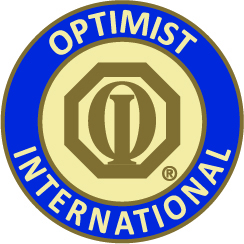 Optimist International logo